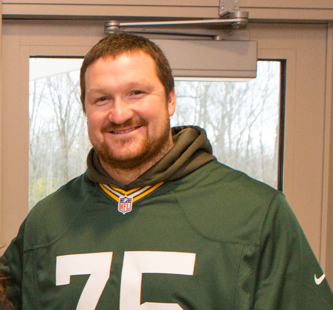 Green Bay Packers clinic visit: Bryan Bulaga crop